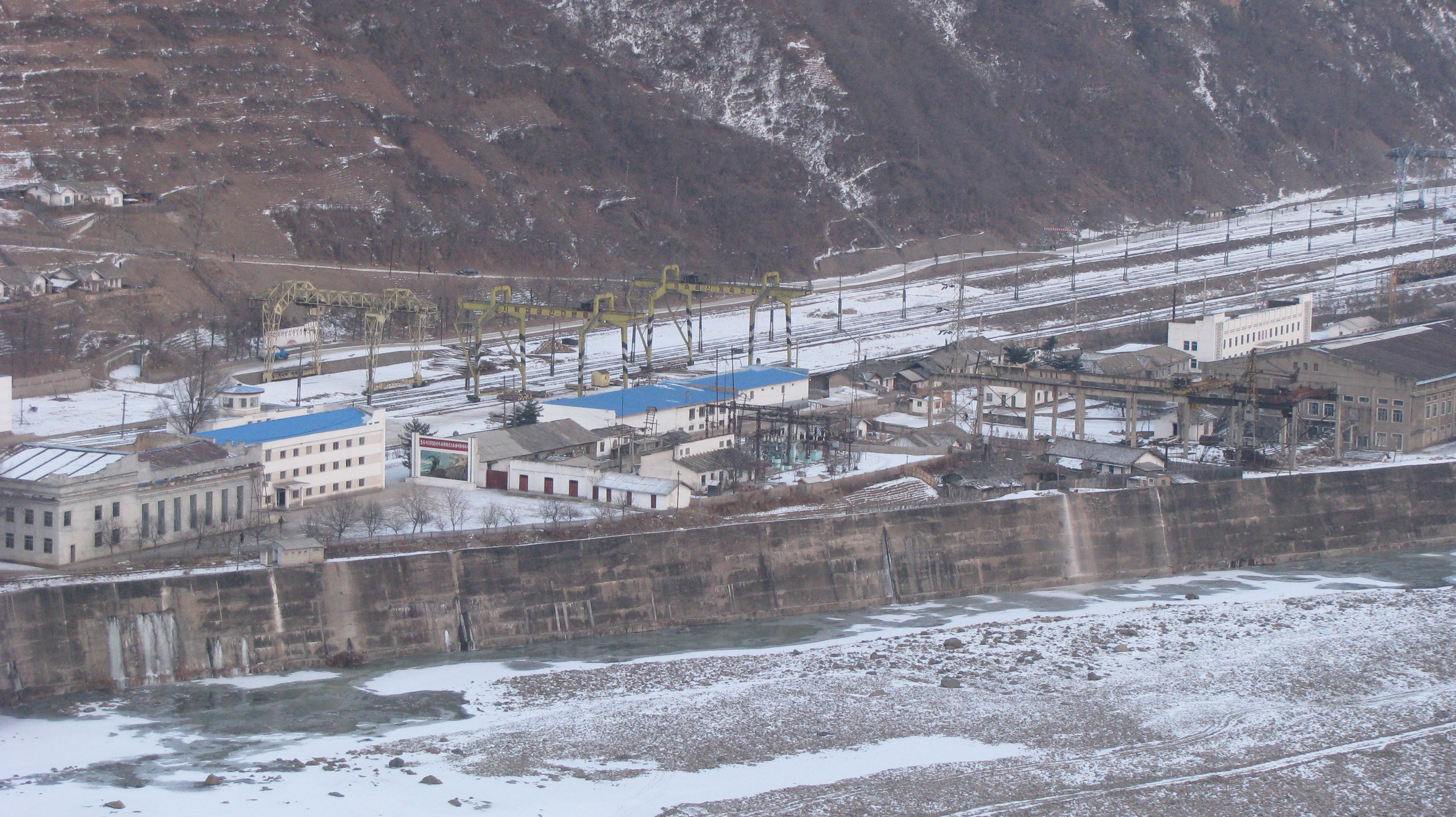 North Korean factory situated directly under the Yunfeng dam